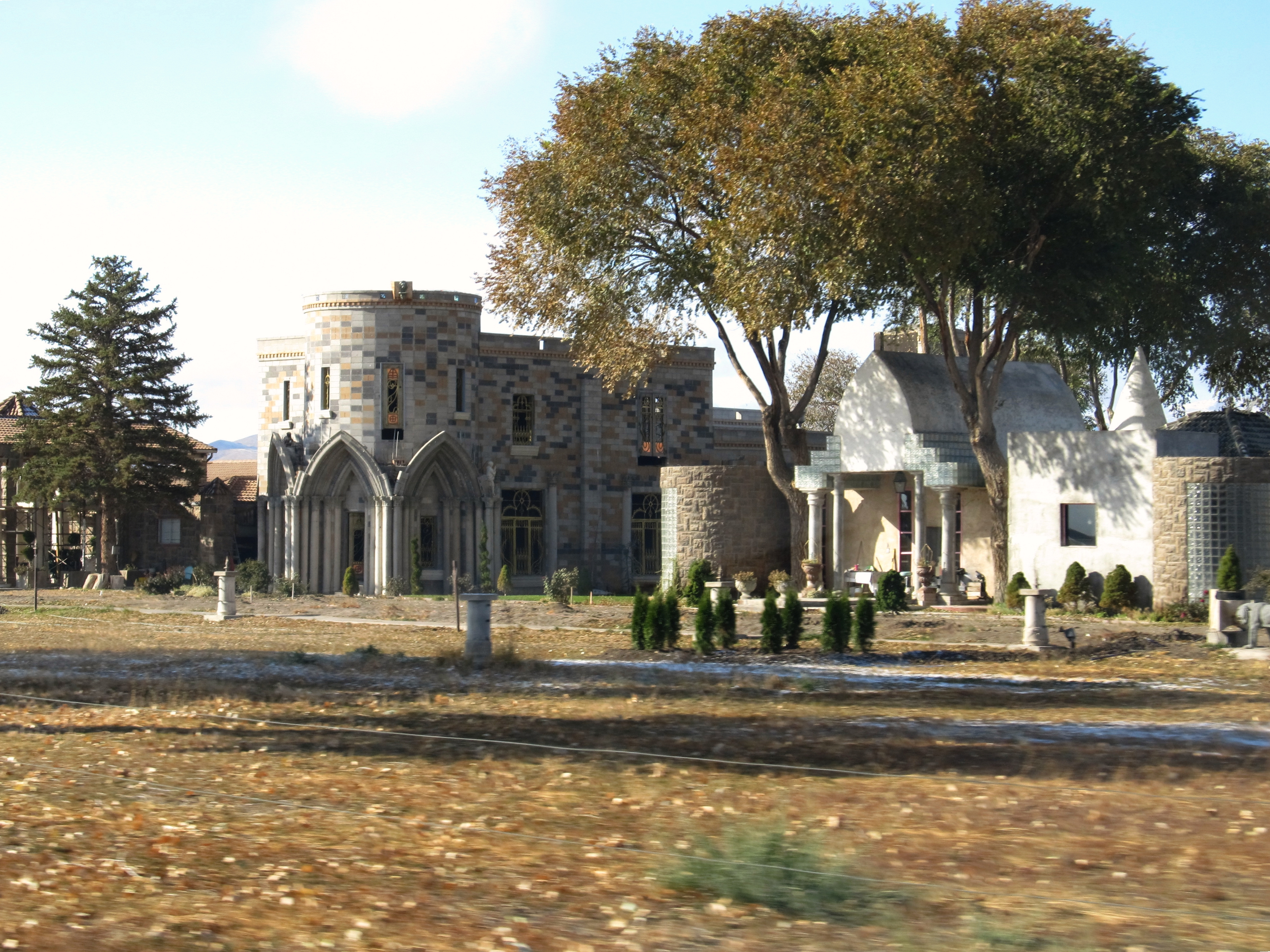 This memorable home sits in the lovely Mason Valley near Wabuska, Nevada.